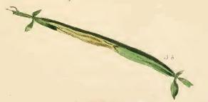 Stainton’s Natural History of the Tineina (1855–1873): Bucculatrix quinquenotella mined stem of Genista sagittalis